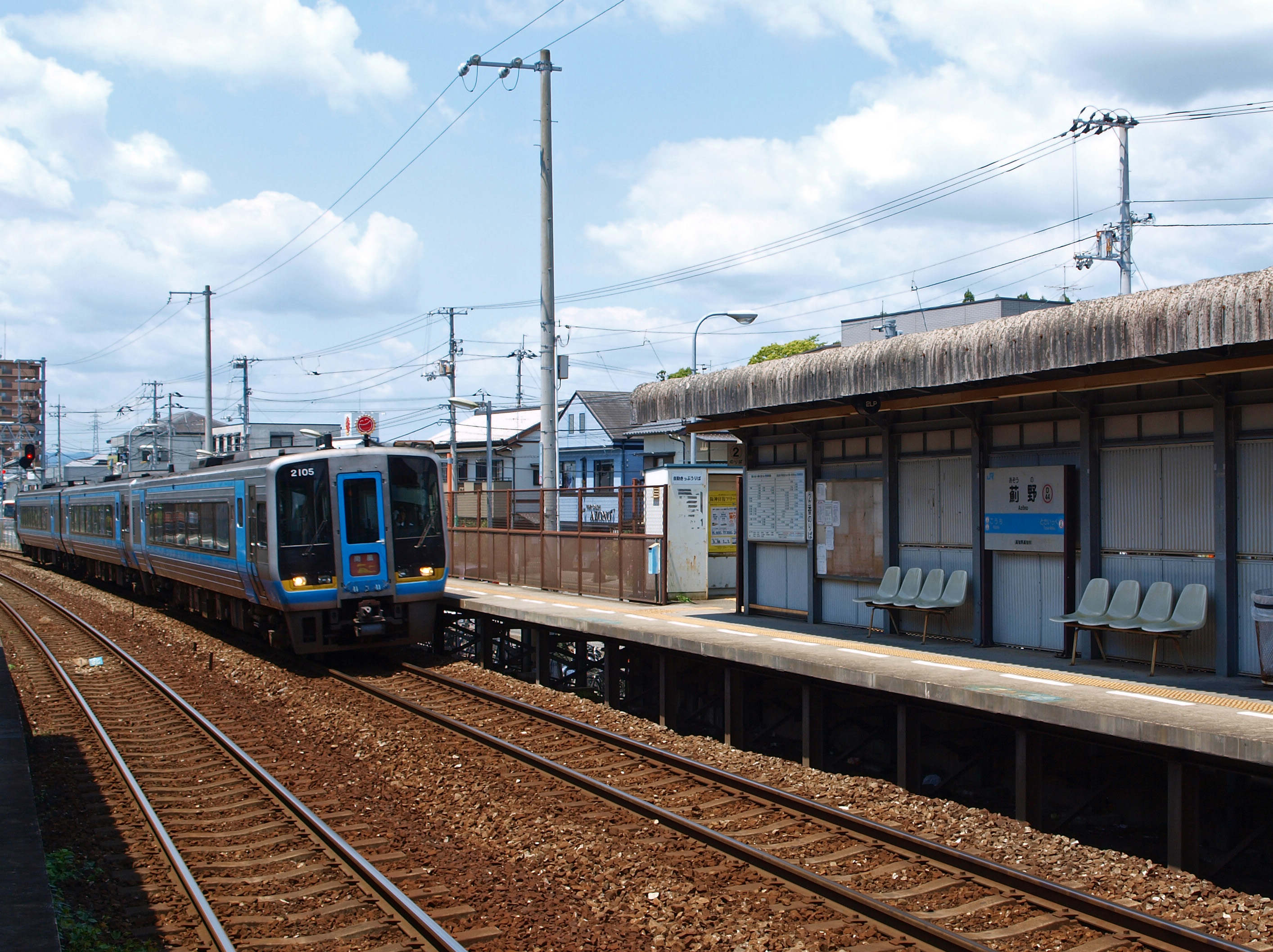 Azōno station, Dosan-line, JR Shikoku, Japan